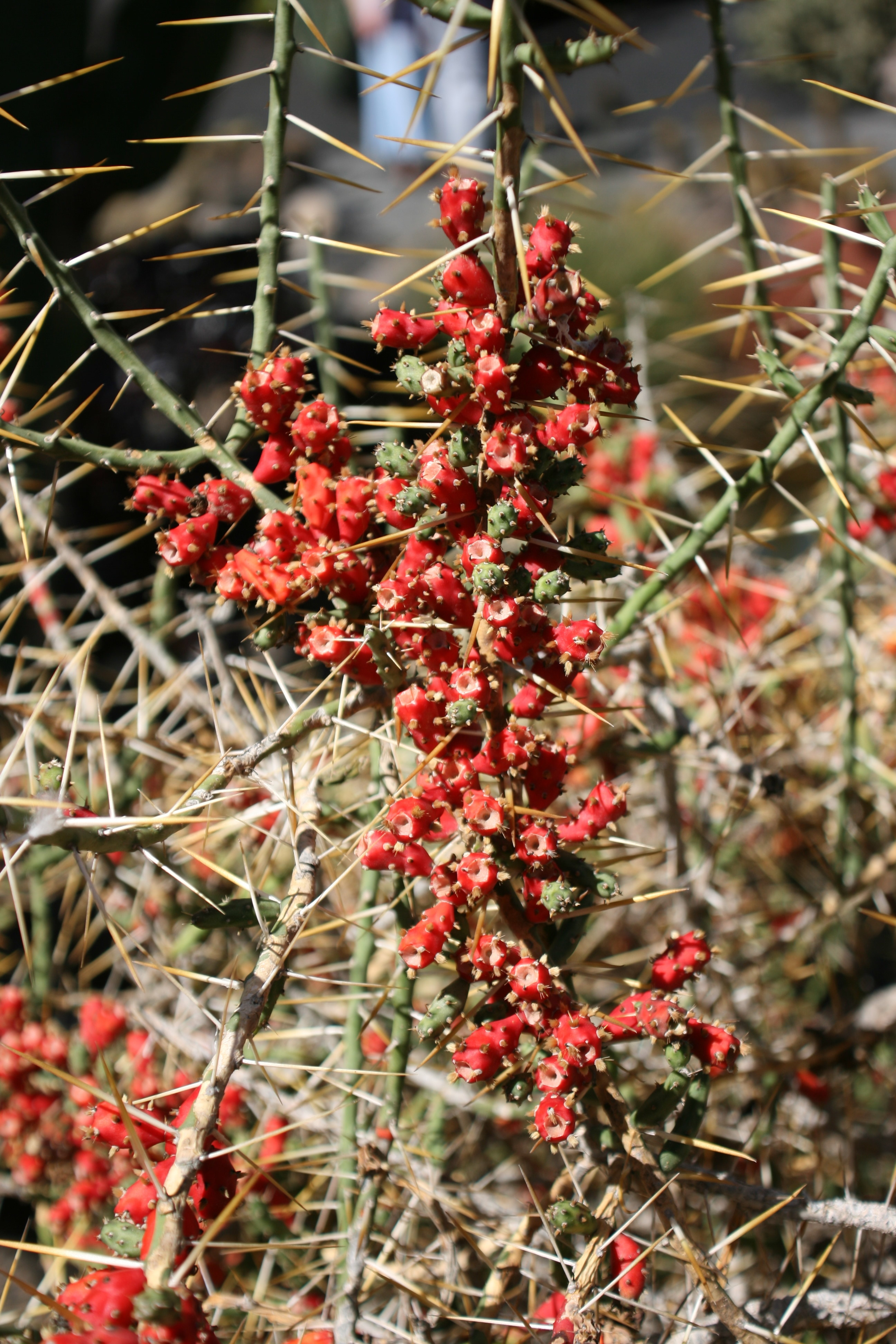 Cylindropuntia leptocaulis grown in the Botanical Garden “Jardin de Cactus” in Guatiza, Teguise, Lanzarote, Canary Islands